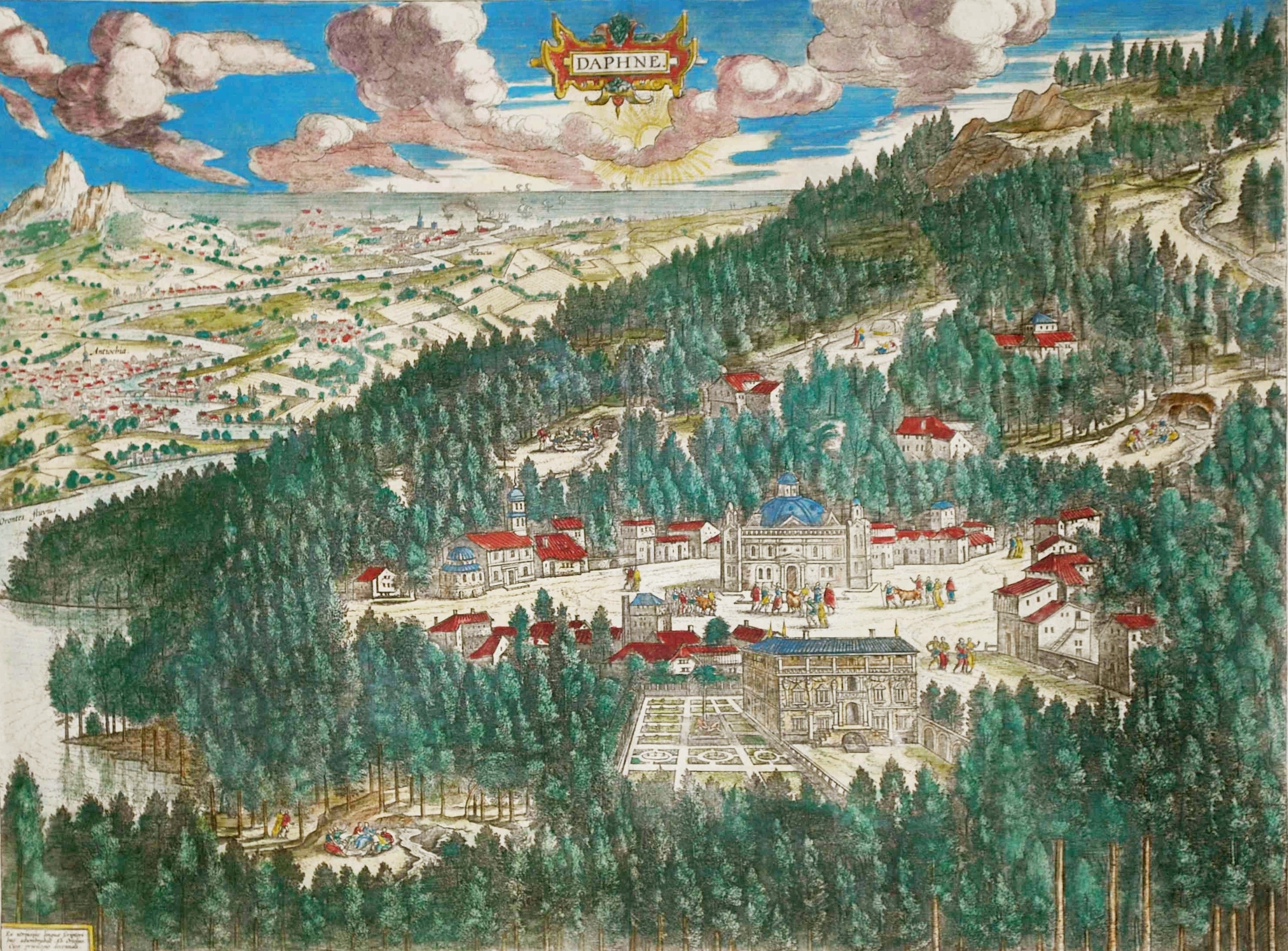 Daphne near Antioch Copperplate print by Abraham Ortelius, Antwerpen, early 17th century Ca. 31 x 44,5 cm